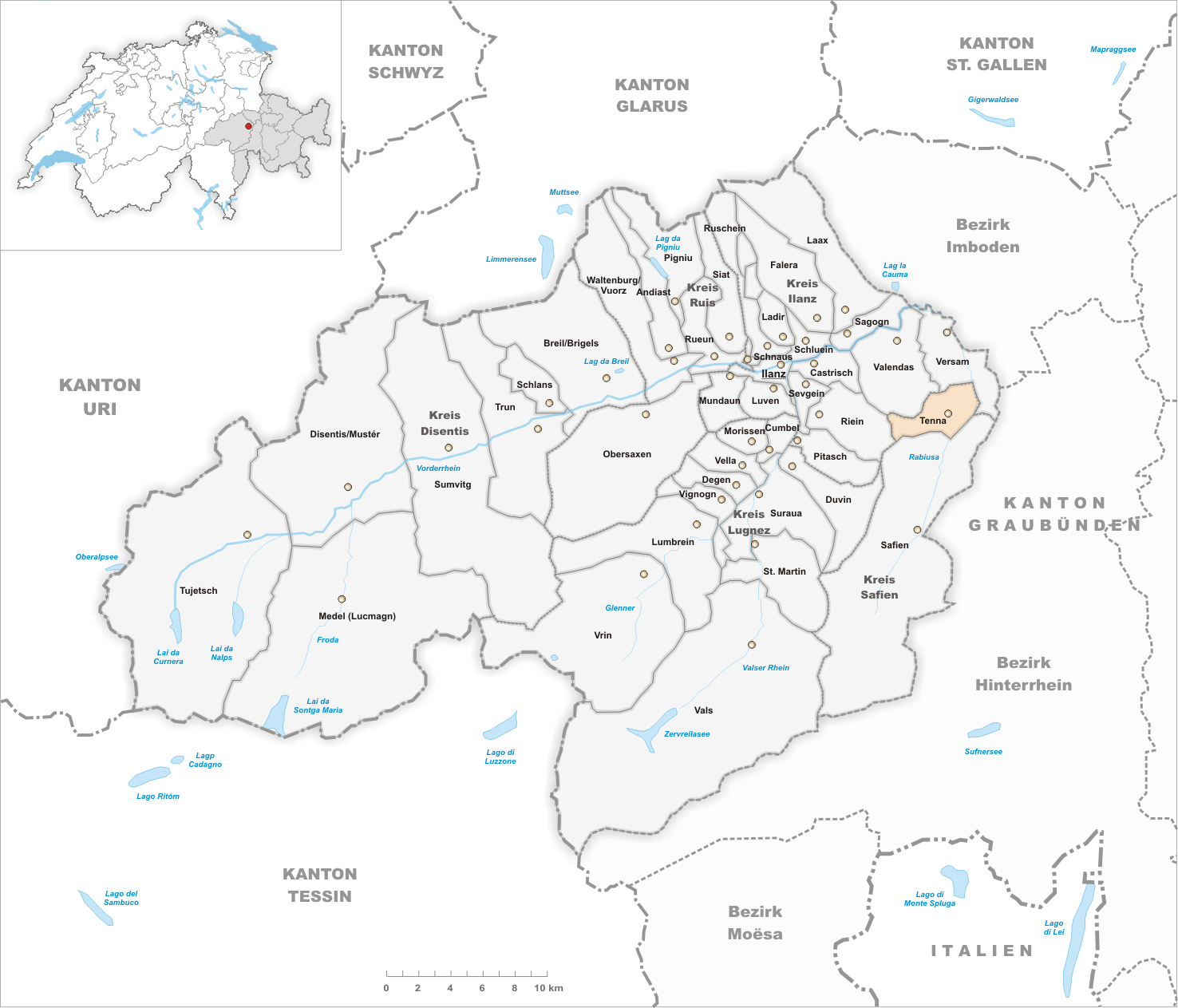 Municipality Tenna